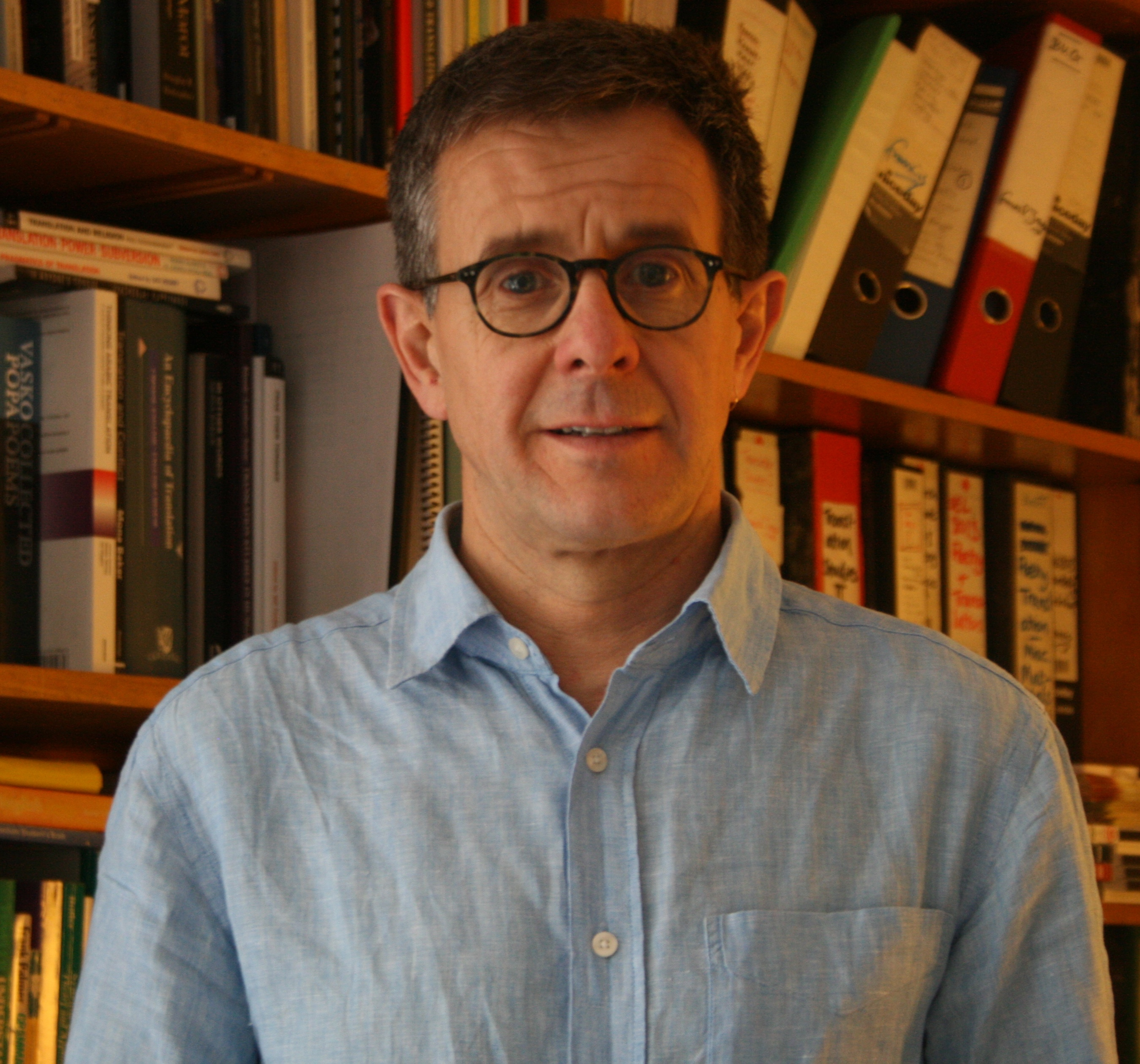 picture of Francis R. Jones